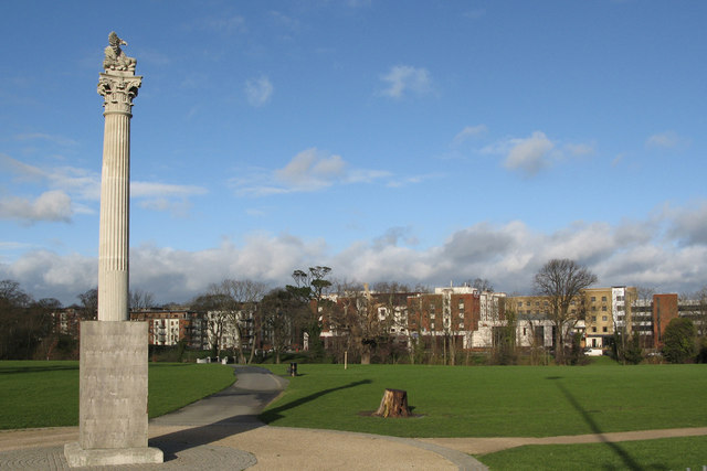 Phoenix Folly, Santry Demesne, Fingal, County Dublin, Ireland. The folly is part of a restored park. The buildings in the background are hotels and apartments